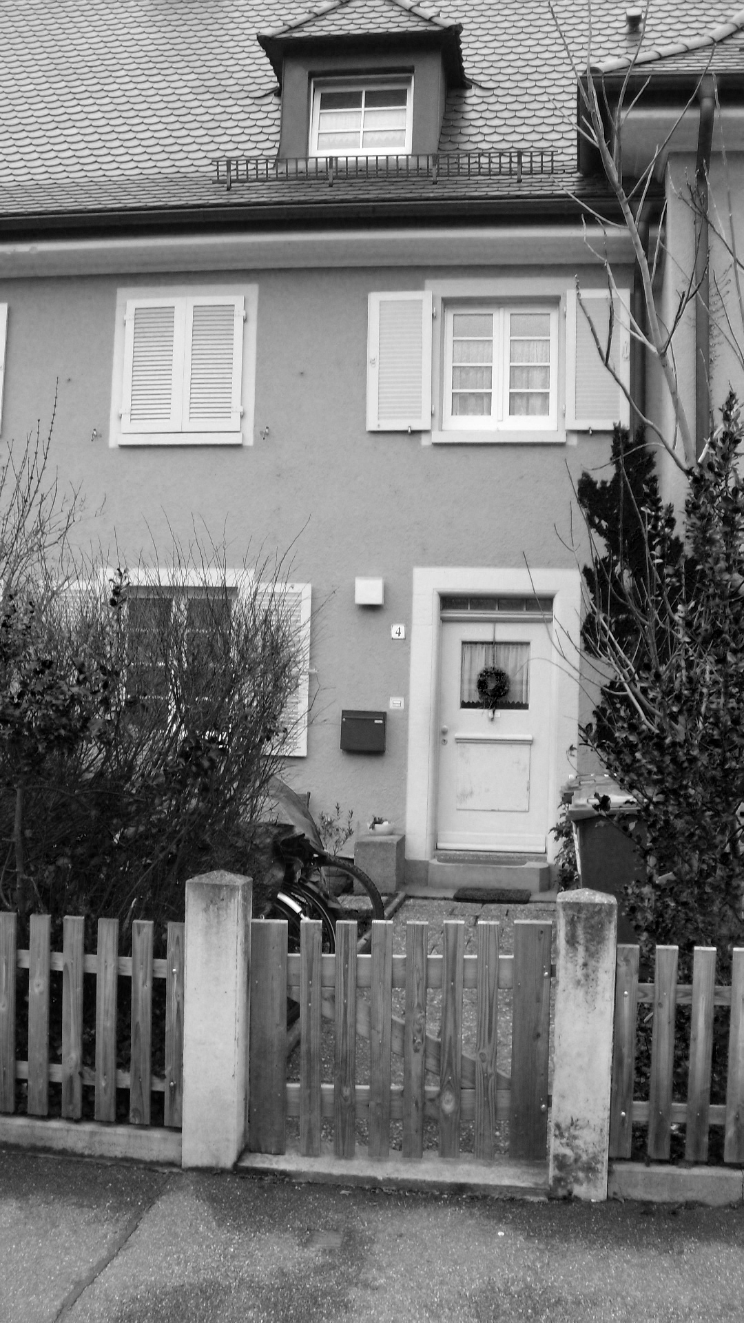 The "Vordtriede House Freiburg" in Fichte Street No. 4. From 1926 to 1939 residence of the emigrated family Vordtriede.